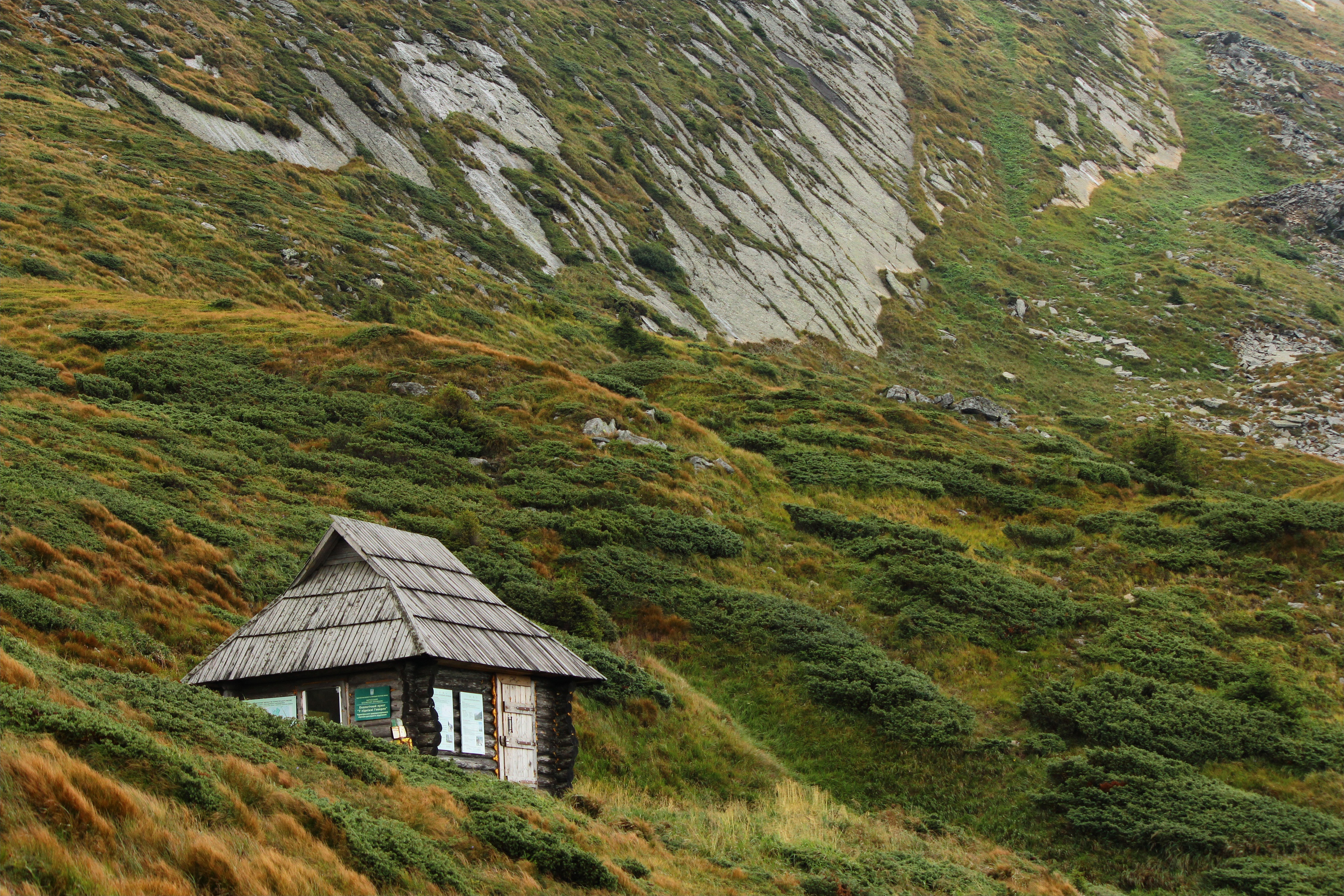 Carpathian Biosphere Reserve. Rakhiv, Tiachiv and Vynohradiv raions.